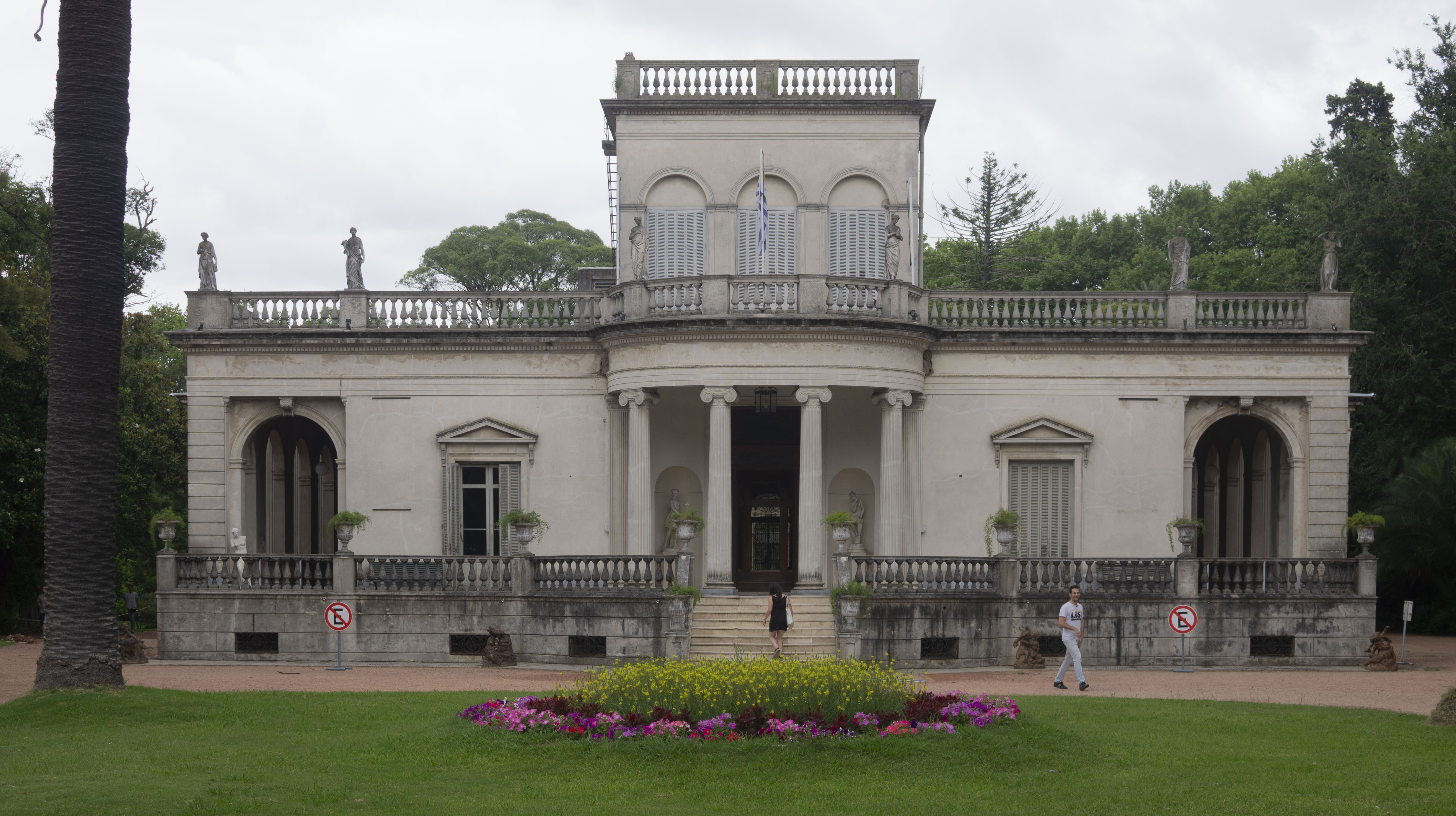 Museum Juan Manuel Blanes, Montevideo, Uruguay